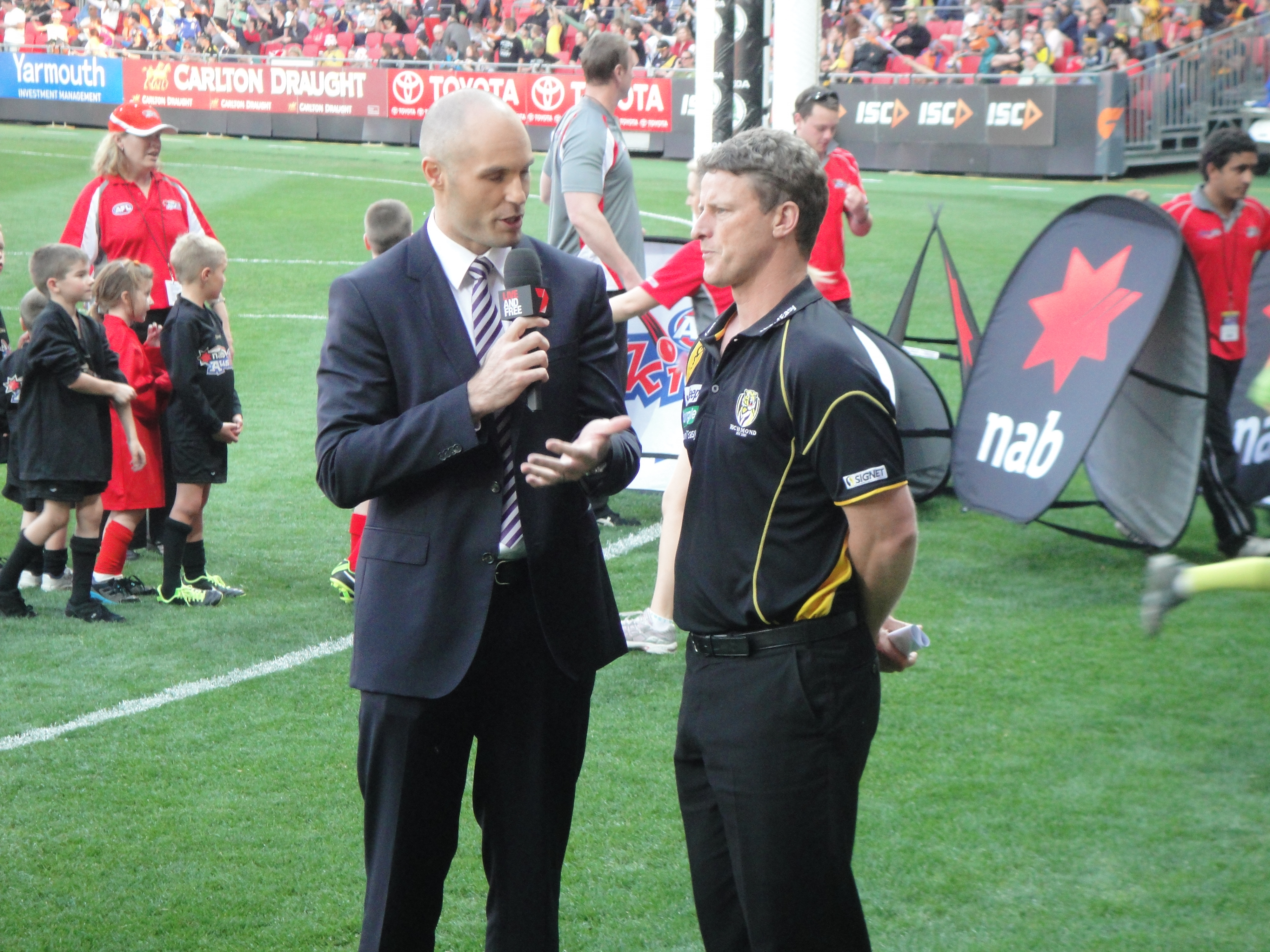 Damien Hardwick being interviewed by Tom Harley during an AFL match in 2013.